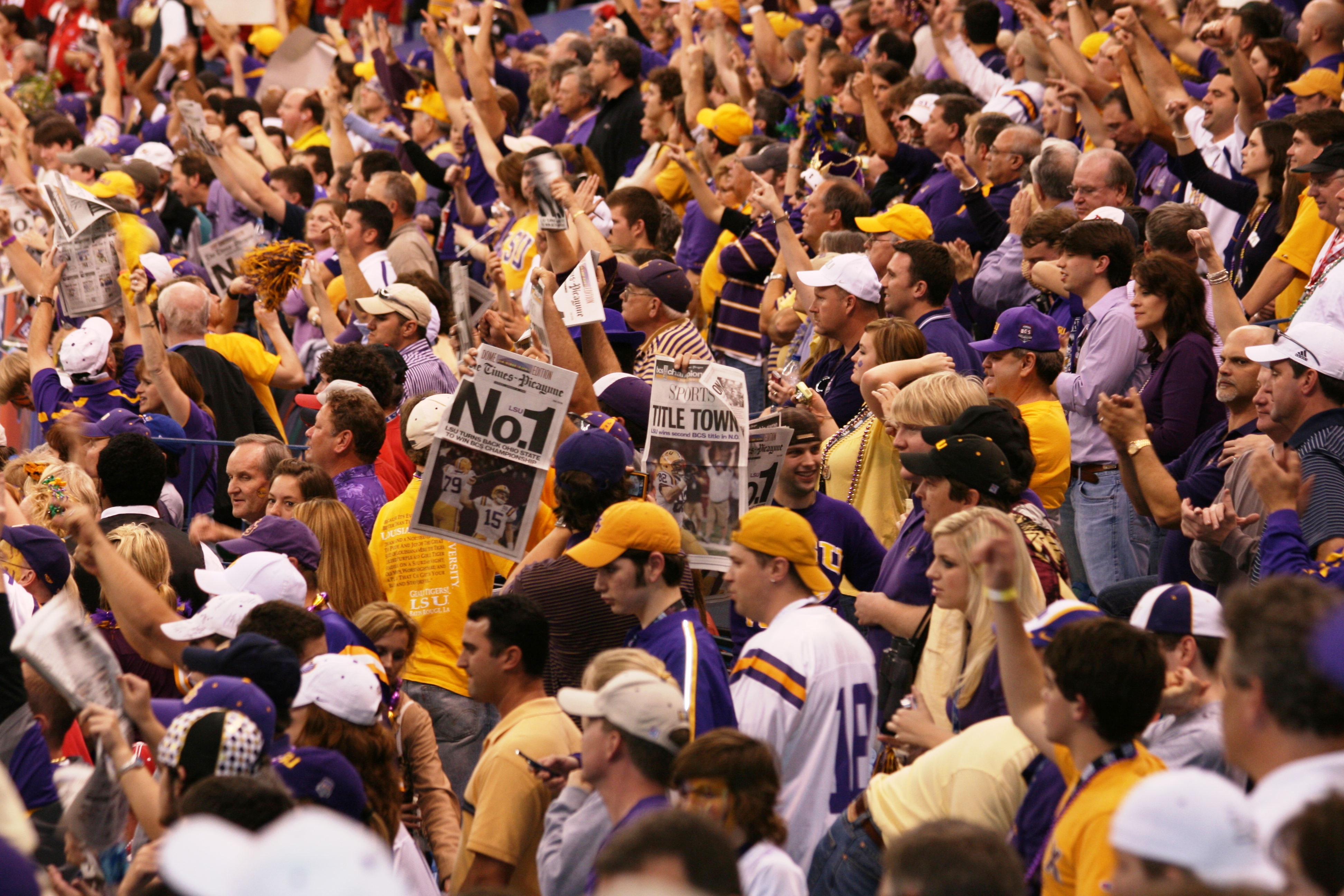 LSU fans begin to celebrate their National Championhip